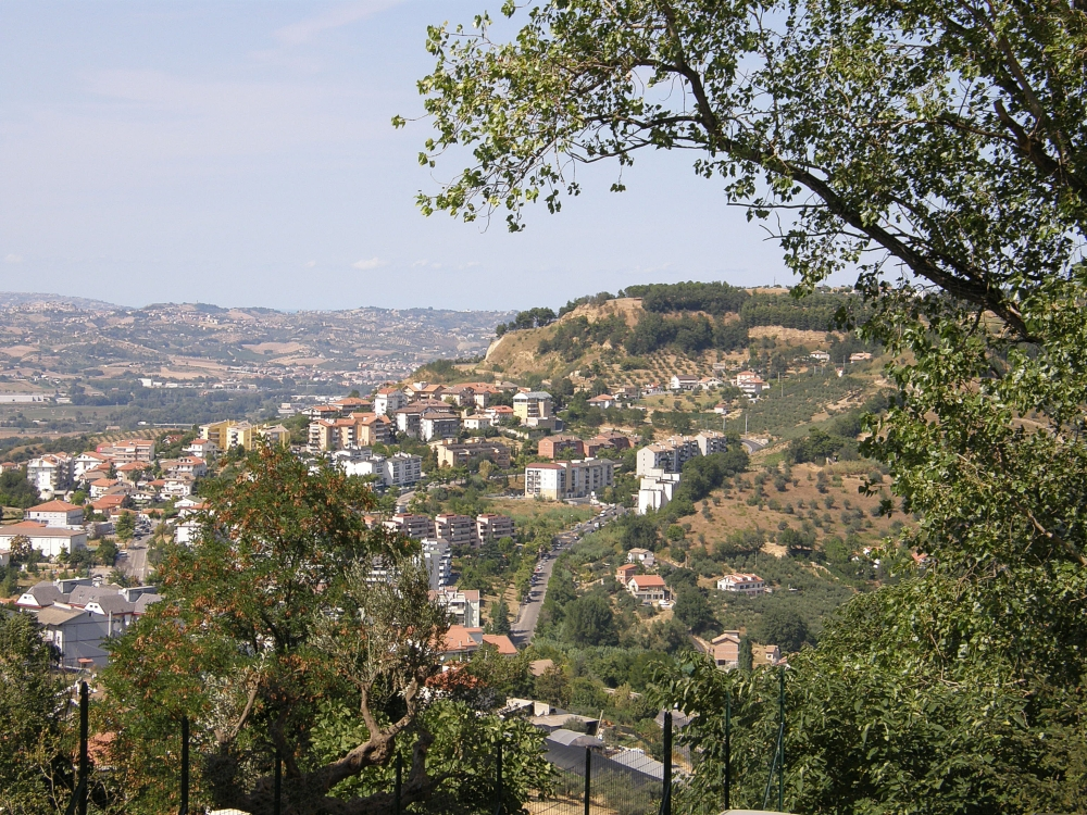 Chieti